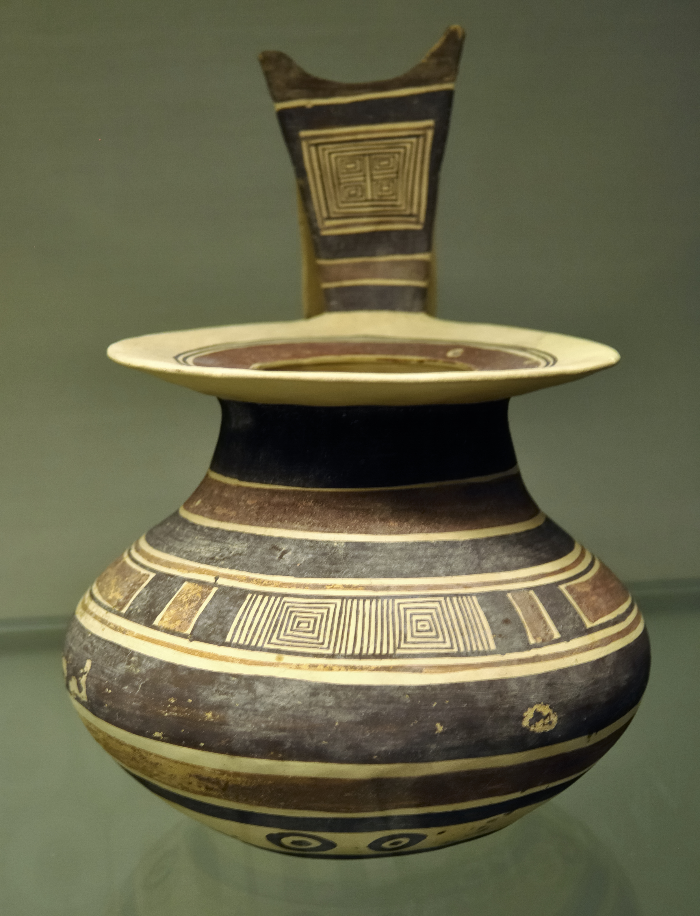 Picture taken in Hetjens-Museum Düsseldorf before Duisburg summer meetup 2010.